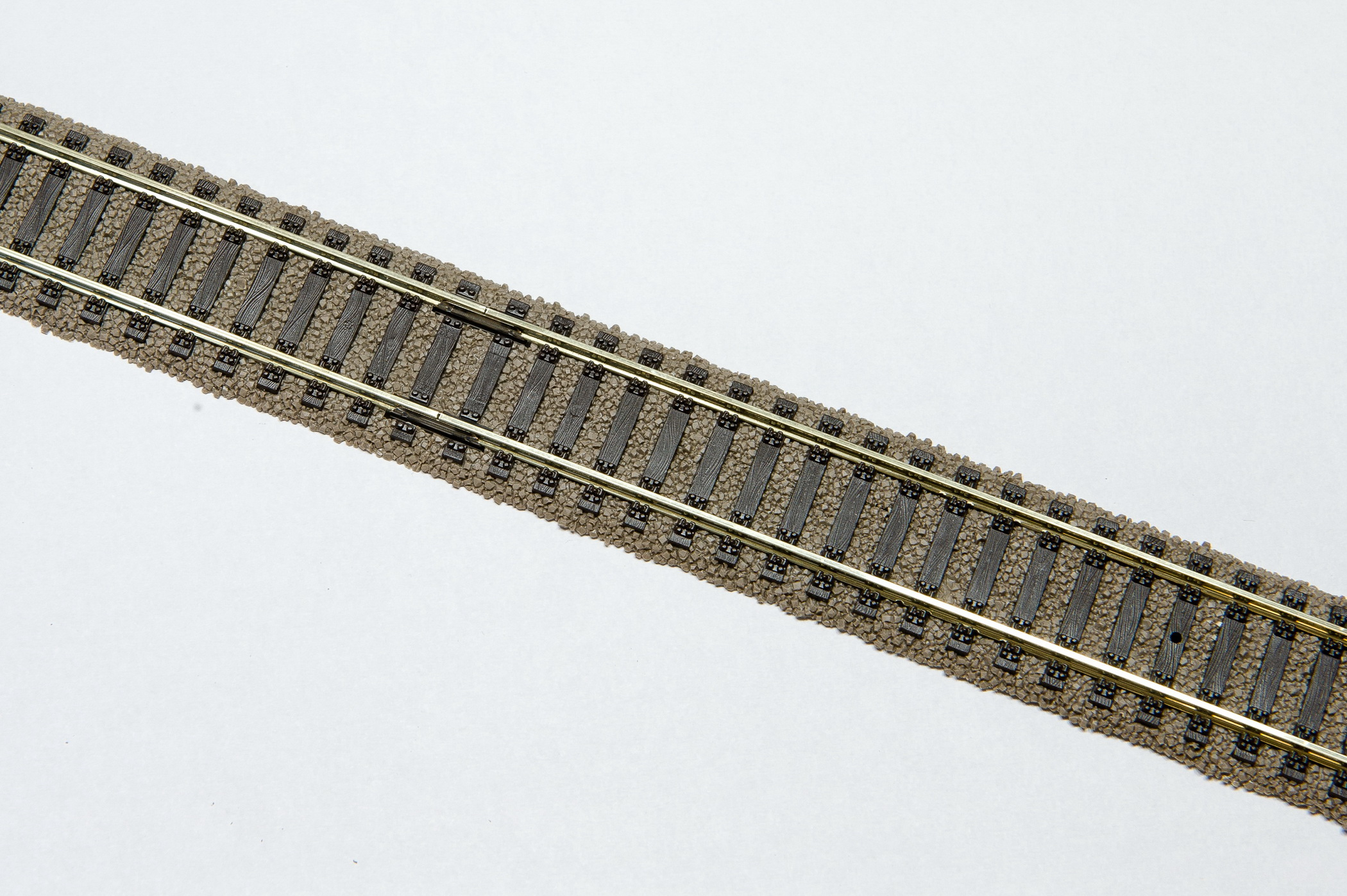 This is a piece of rail track of HO scale, produced by Modelleisenbahn GmbH (Fleischmann).